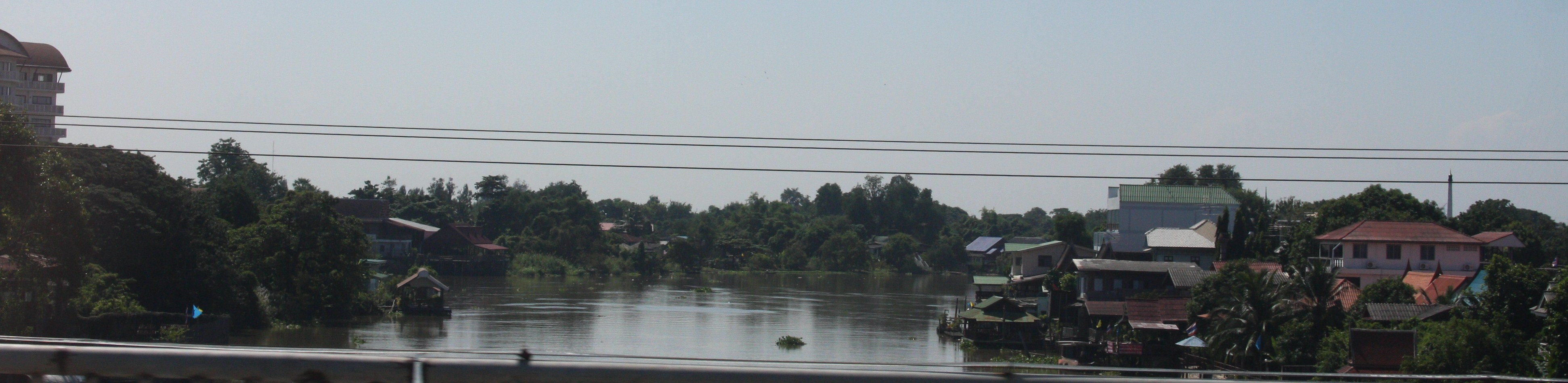 Pa Sak floating through Ayuttaya, seen towards north